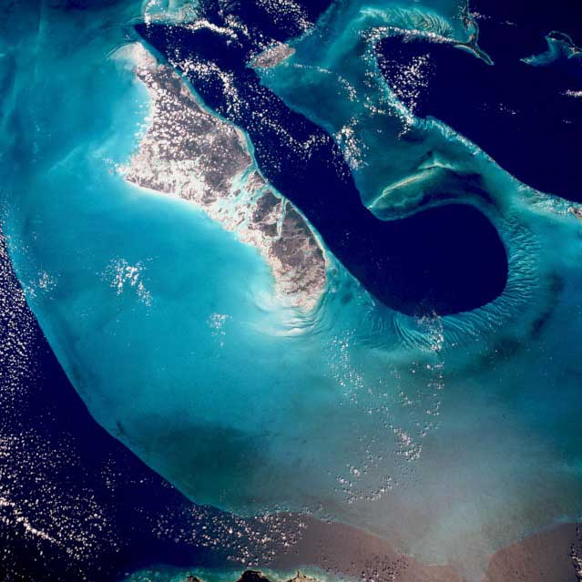 This is a NASA image taken from The NASA photo number is STS029-090-009 with a date of March 1989.